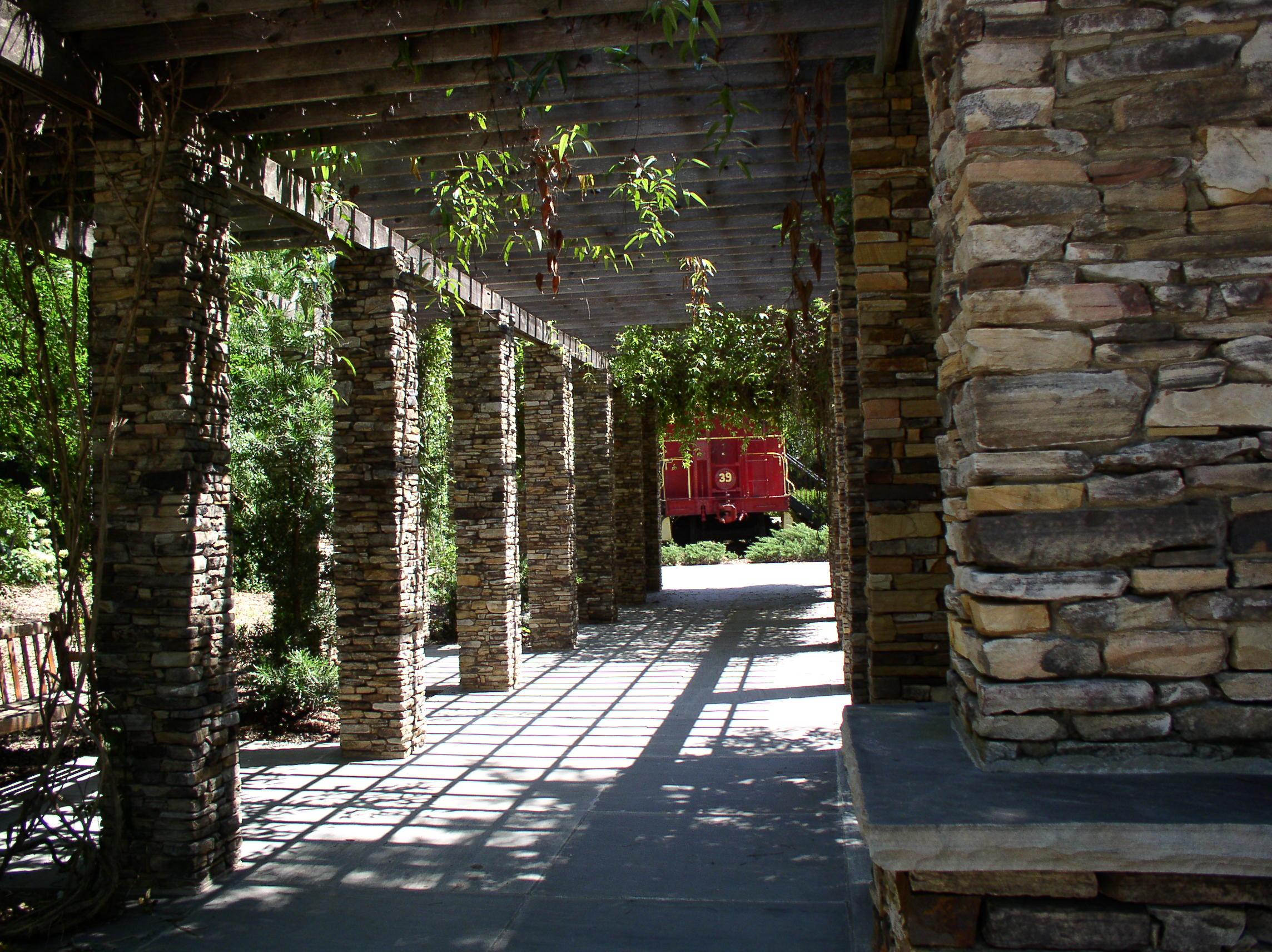 Pergola at the SC Botanical Garden